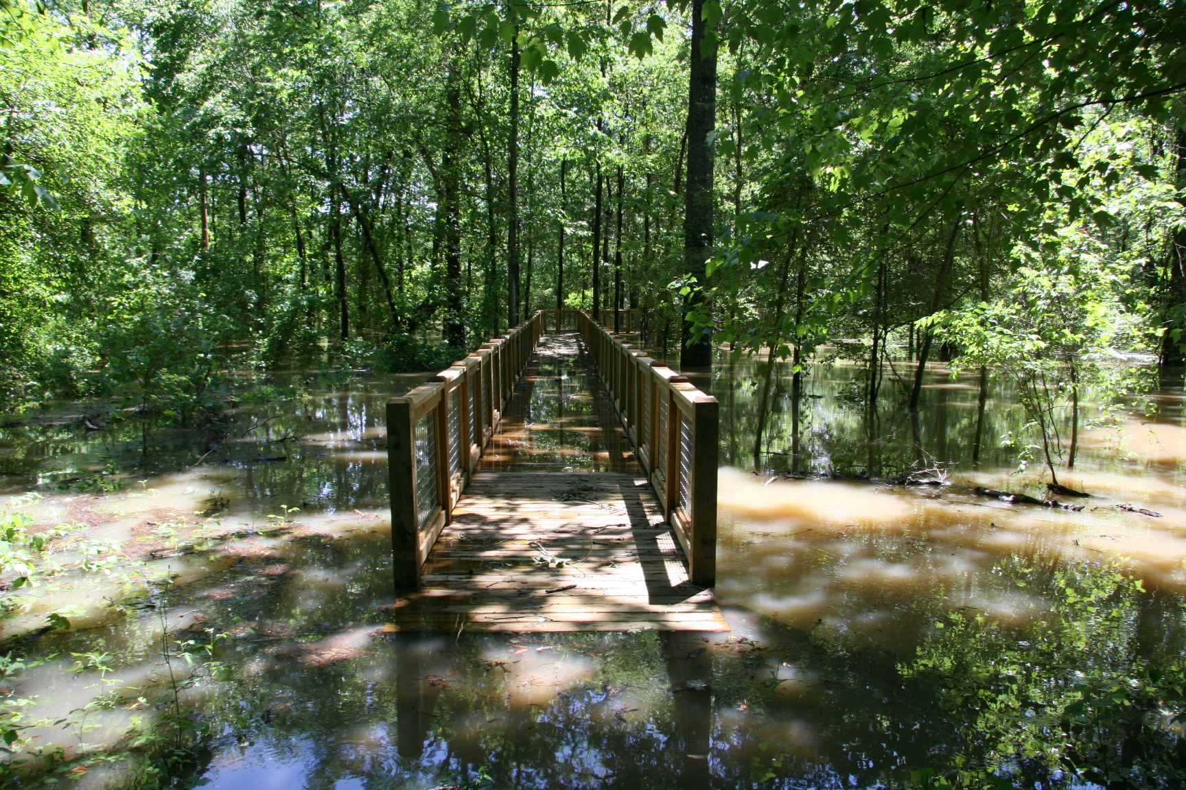 This boardwalk was built at 30 feet flood stage. Today, the flood stage is at 34 feet. Photo taken between May 3 and May 6th of the boardwalk trail at White River National Wildlife Refuge in St. Charles, Arkansas. Credit: USFWS.